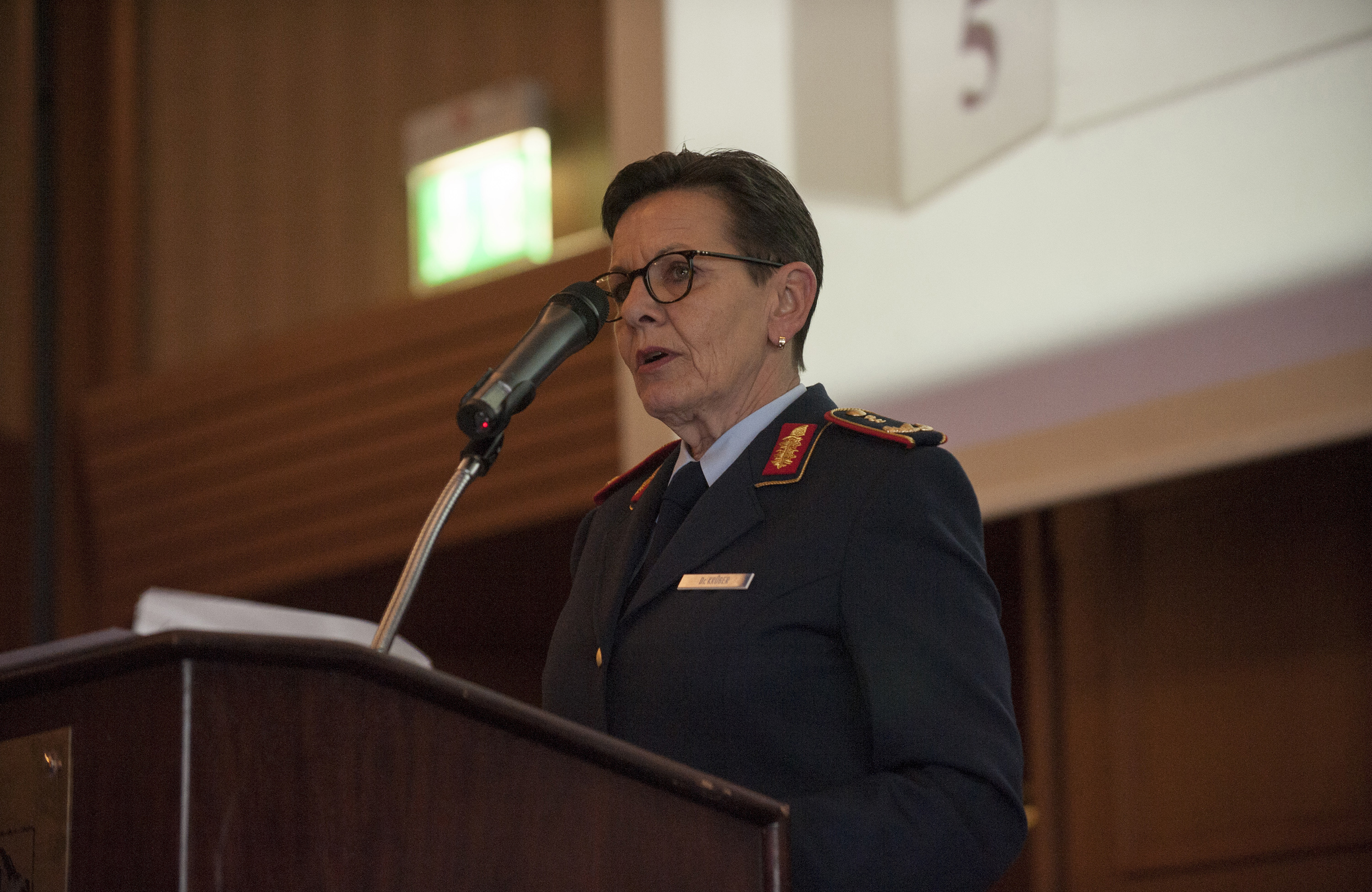 German Bundeswehr Brigadier General Gesine Kruger, the Deputy Commander of the Regional Medical Care Command, speaks to a crowd of over 300 medical professionals during the 2016 European African Military Nursing Exchange (EAMNE) Conference and The Eurasia Africa Military Medical (TEAMM) Summit at Garmisch-Partenkirchen, Germany on May 23, 2016. The two medical conferencing events allowed medical professionals from across Europe and Africa to learn and exchange their best medical practices with one another in hopes of enhancing their capabilities of providing the highest quality care for their patients.